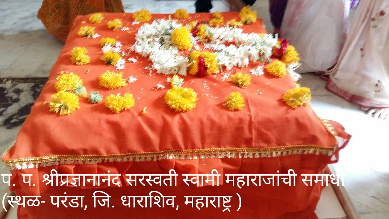 Shri Pradnyanananda Saraswati Swami took Samadhi on 23-3-196at Paranda by giving up food and warer at Paranda, Osmanabad, Maharashtra.